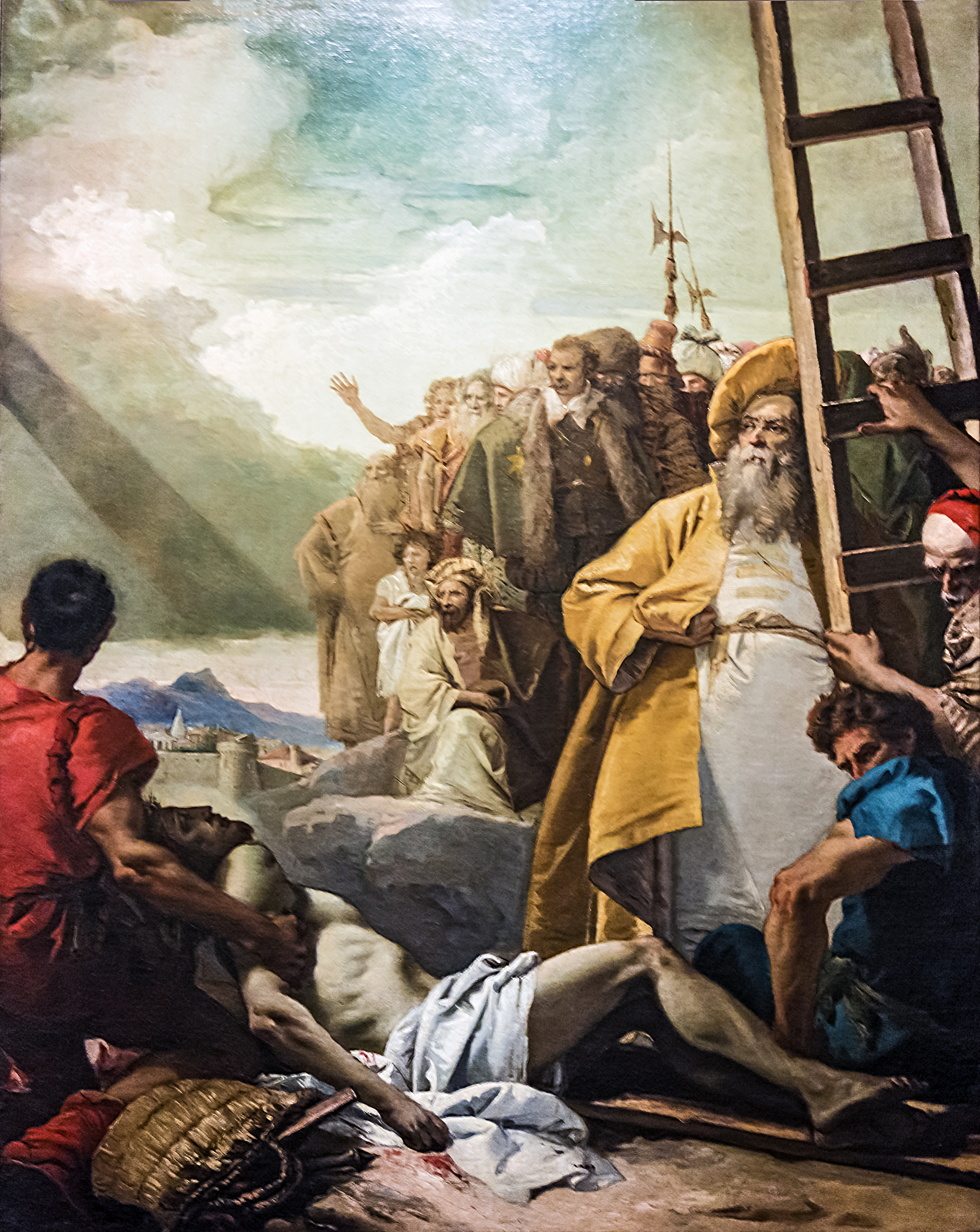 San Polo (church) - Oratory of the Crucifix - VIA CRUCIS XI - Jesus is nailed to the cross by Giandomenico Tiepolo. Oil on canvas (1745 -1749).